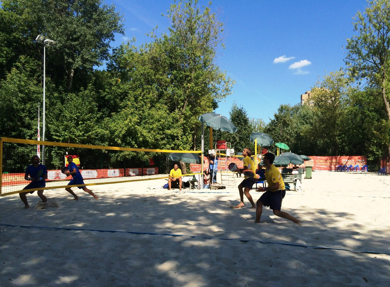 Beach tennis play (World Team Championship in Russia, 2014)